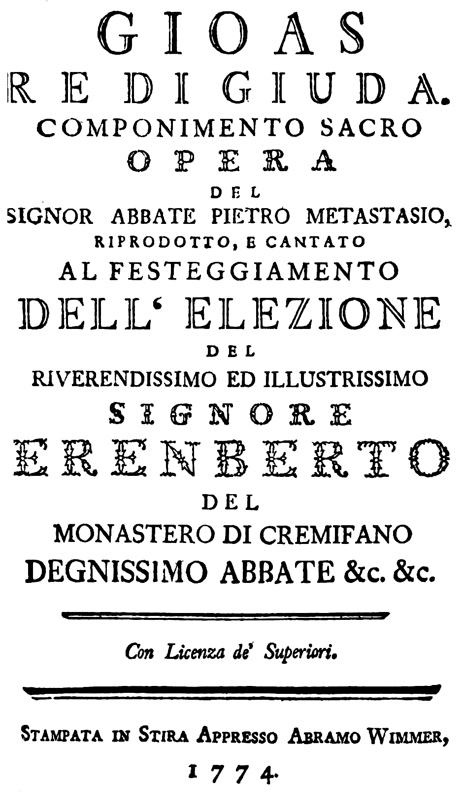 Georg Christoph Wagenseil - Gioas re di Giuda - titlepage of the libretto - Steyer 1774